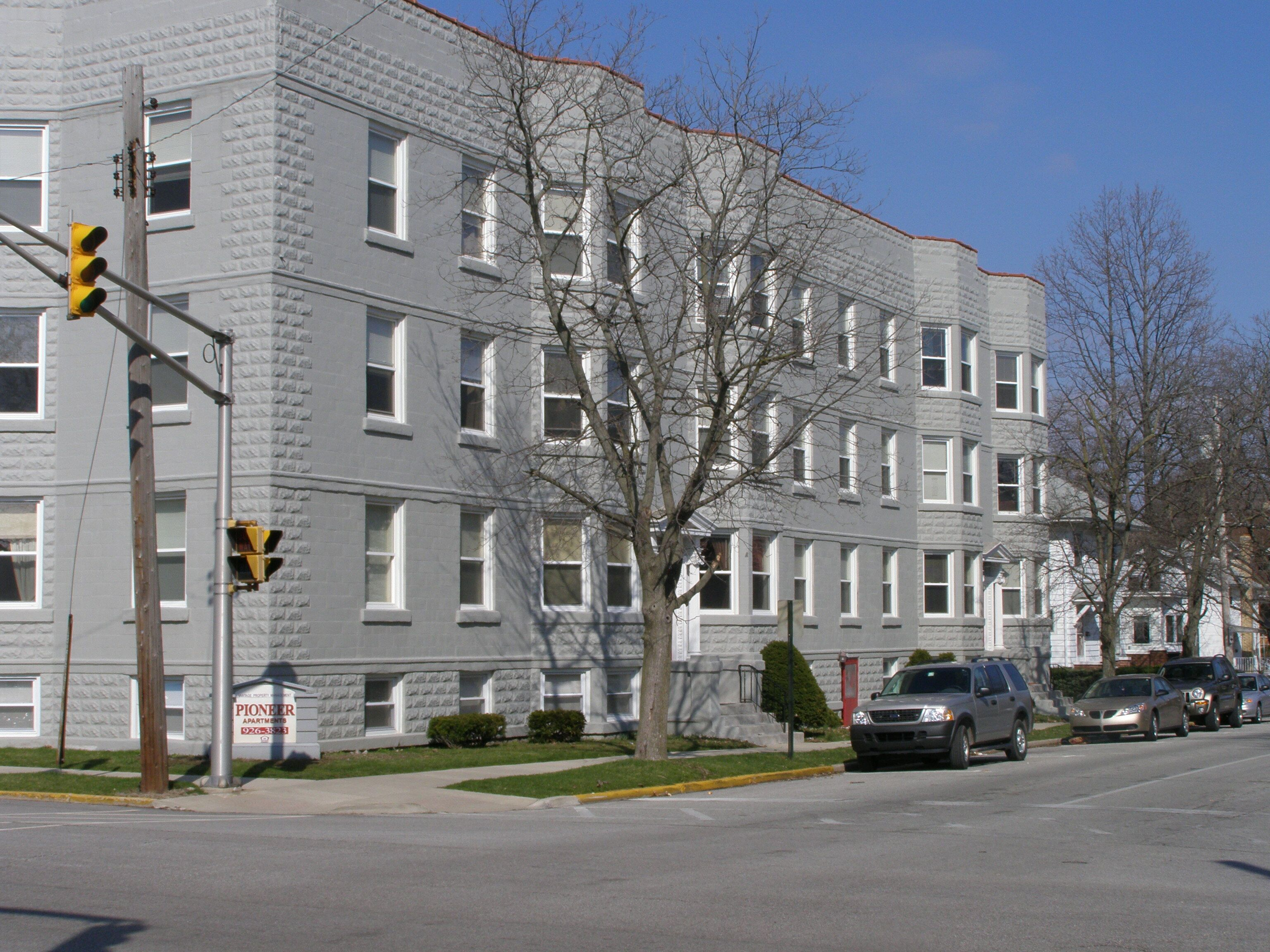 Pioneer Apts,Washington Street Historic District (Indiana)